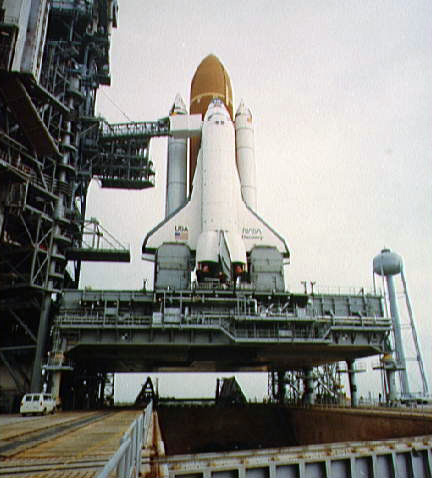 Shuttle Discovery on the launch pad for the STS 51-D mission.